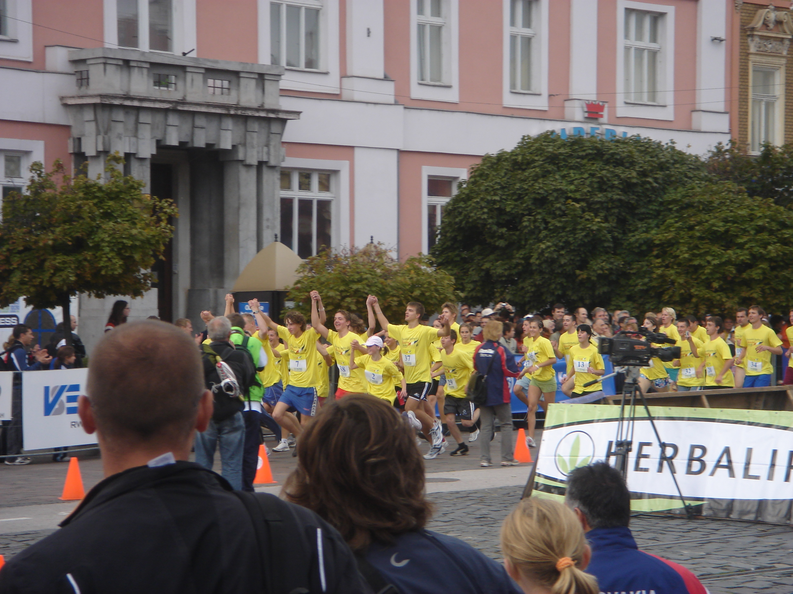 84th International Peace Marathon in Kosice, Slovakia